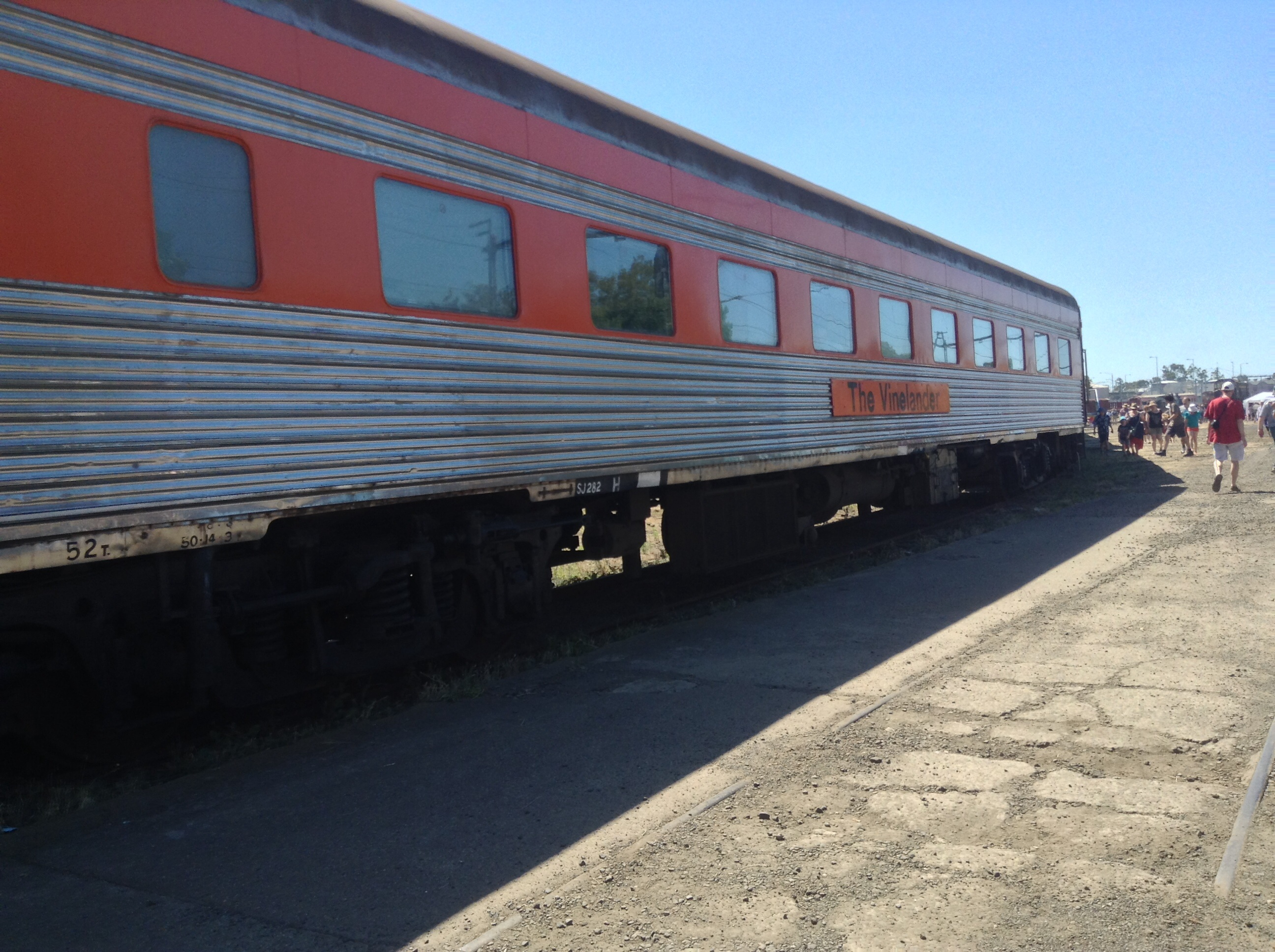 A Vinelander carriage, formerly used for Passenger services on the Mildura line, currently stored at Newport work shops.